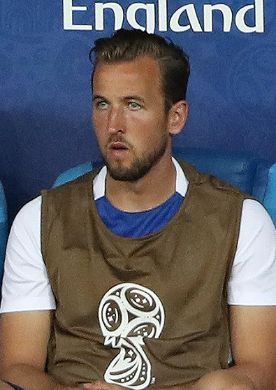 Harry Kane on the bench for England against Belgium at the 2018 FIFA World Cup